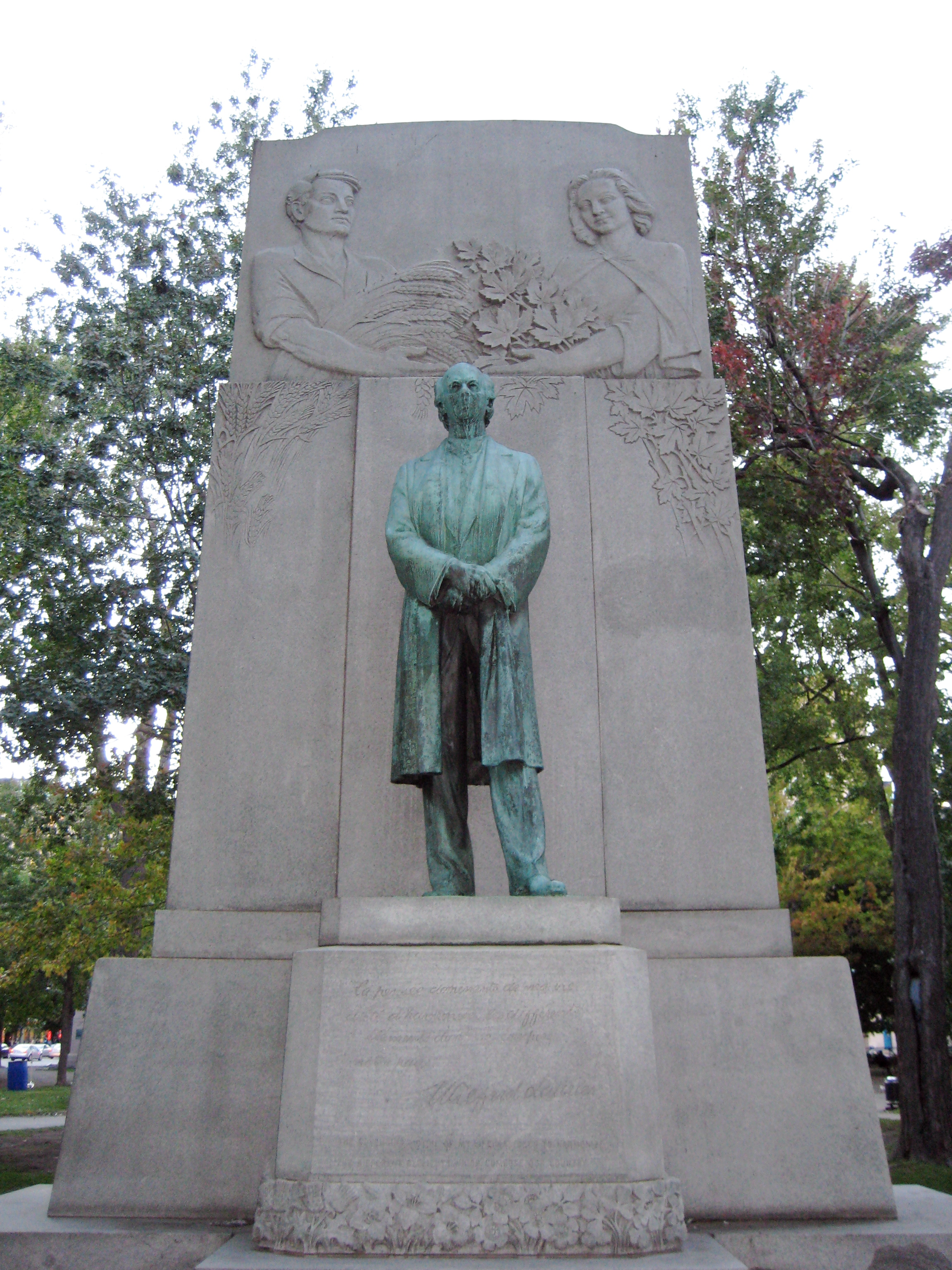 Tribute to Sir Wilfred Laurier \n